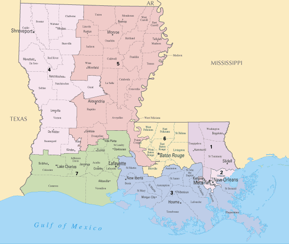 Louisiana's congressional districts prior to 2012 redistricting